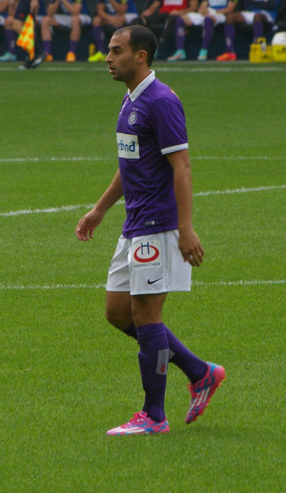 Austrian Bundesliga league match